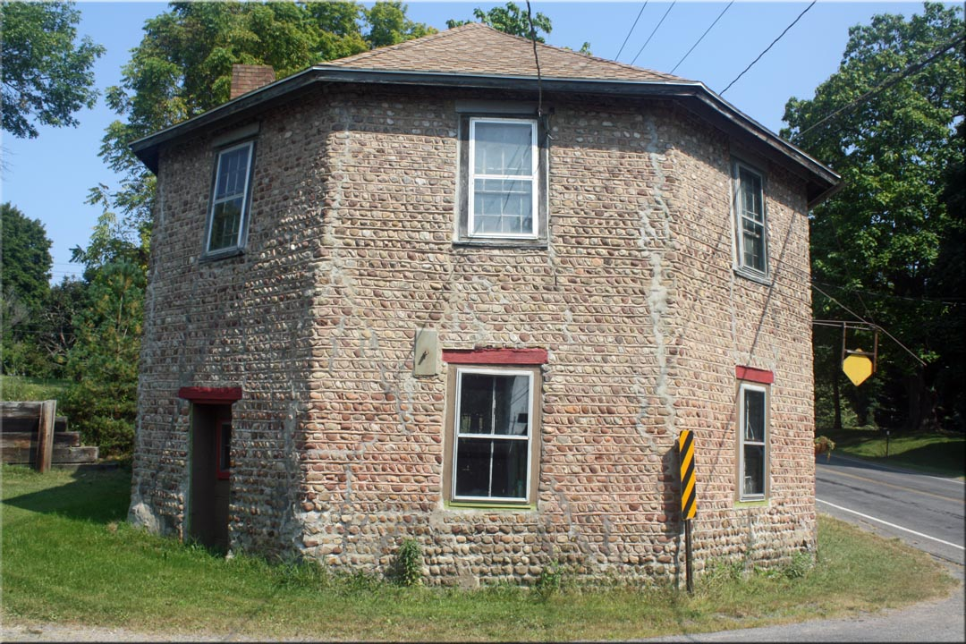 A photo of the historical octagonal cobblestone blacksmith shop in the hamlet of Alloway, New York.